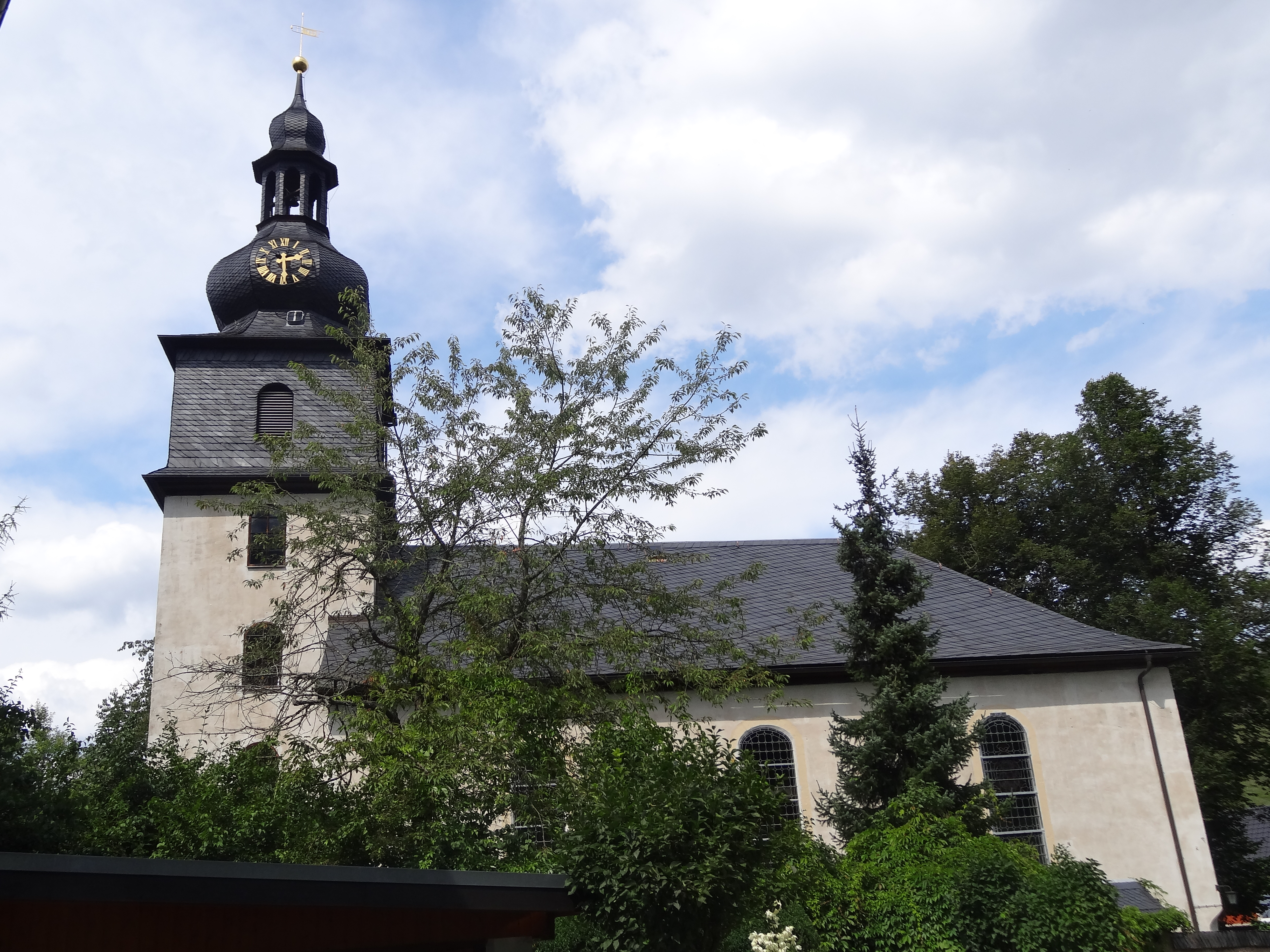 Church in Marktgölitz, Thuringia, Germany